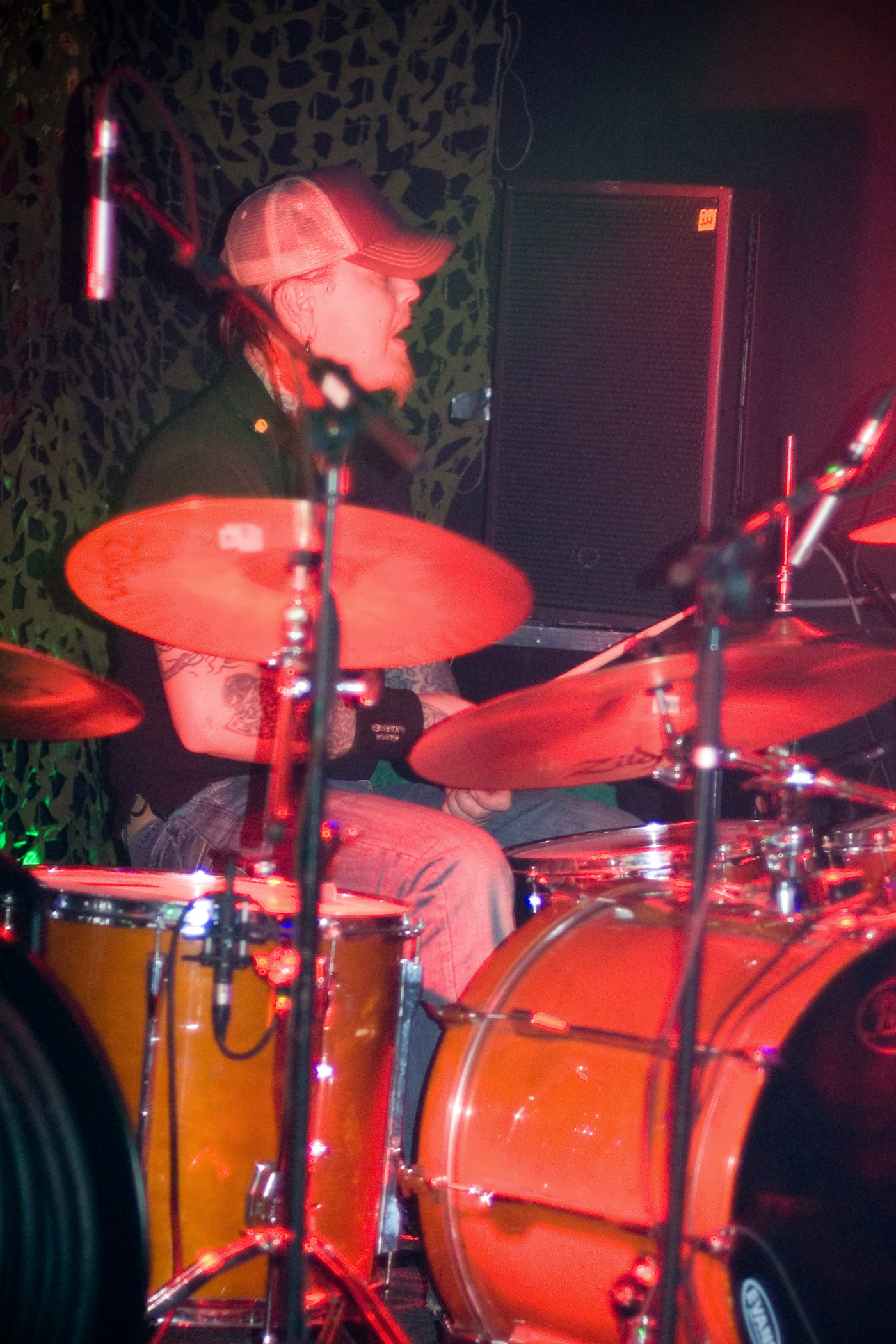 Drummer Jari Sinkkonen of the band Kotiteollisuus performs in Lappeenranta, Finland on the 16th of October 2008.